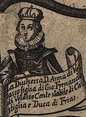 Ana de Velasco y Téllez-Girón (1585-1607), a Spanish noblewoman, Duchess of Braganza, and mother of John IV of Portugal.